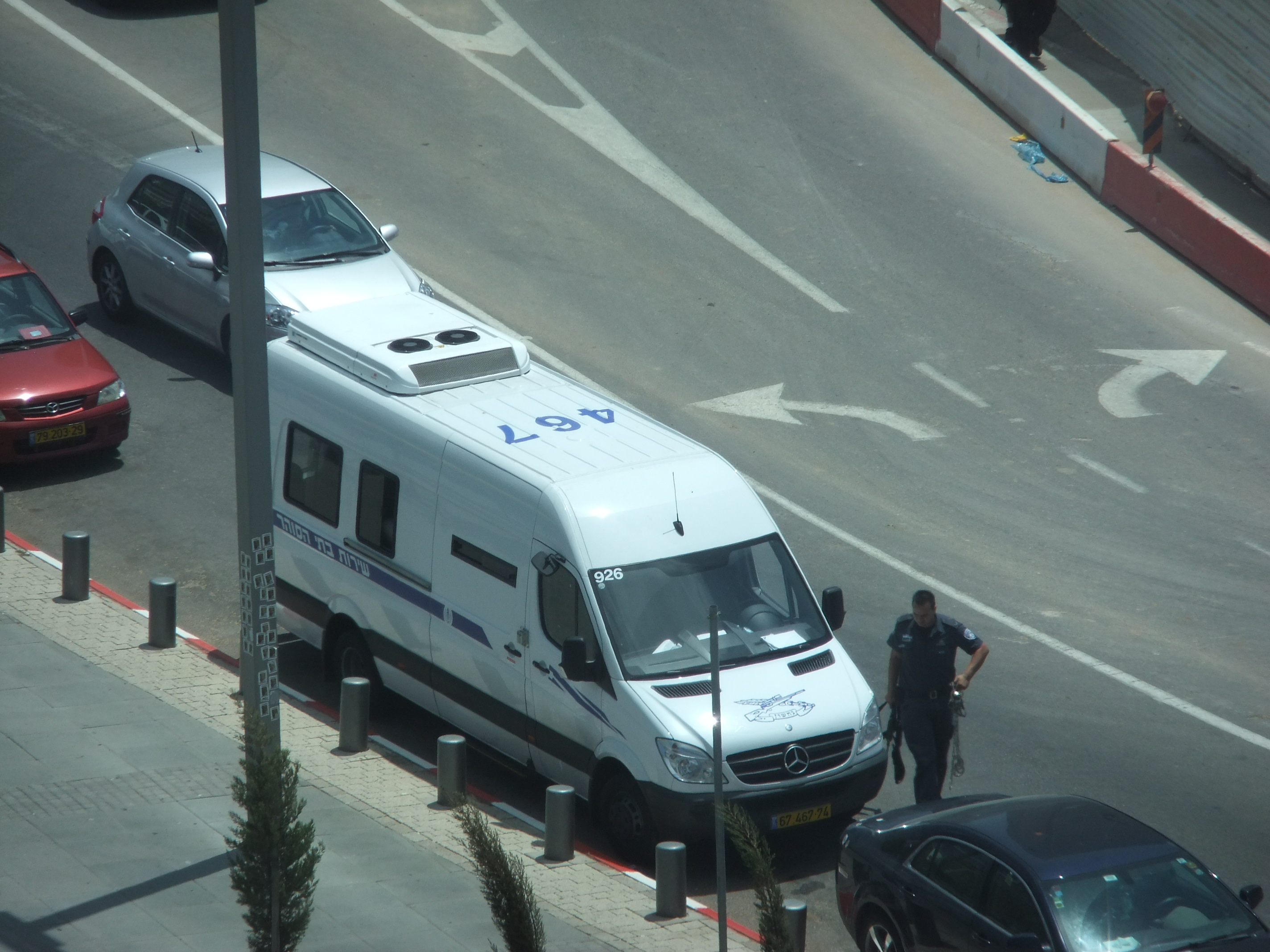 Israel Prison Service vehicles parked near the Tel Aviv court. Israel Prison Service person is next to the vehicle